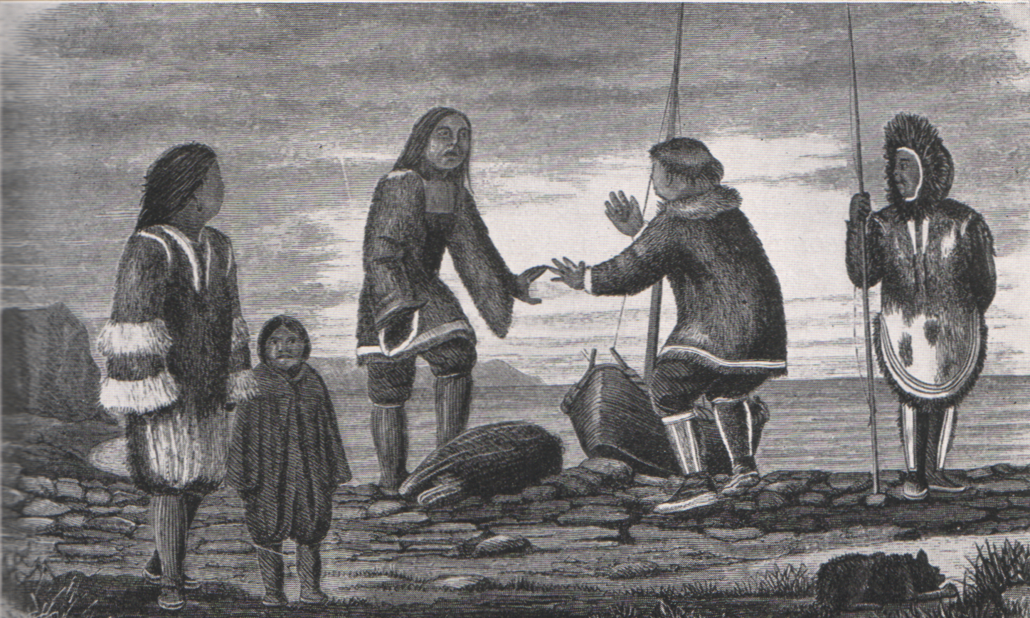 Emil Brass (German fur trader, consul, *1856; +1938): Aus dem Reiche der Pelze (From the Empire of Furs). Publisher: Neue Pelzwaren-Zeitung, Berlin 1911. 709 pages, cloth cover. 17,5 x 26 cm.